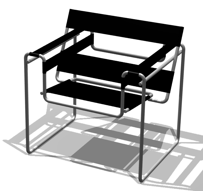 A - not totally accurate - computer graphic of famous chair designed by Marcel Breuer